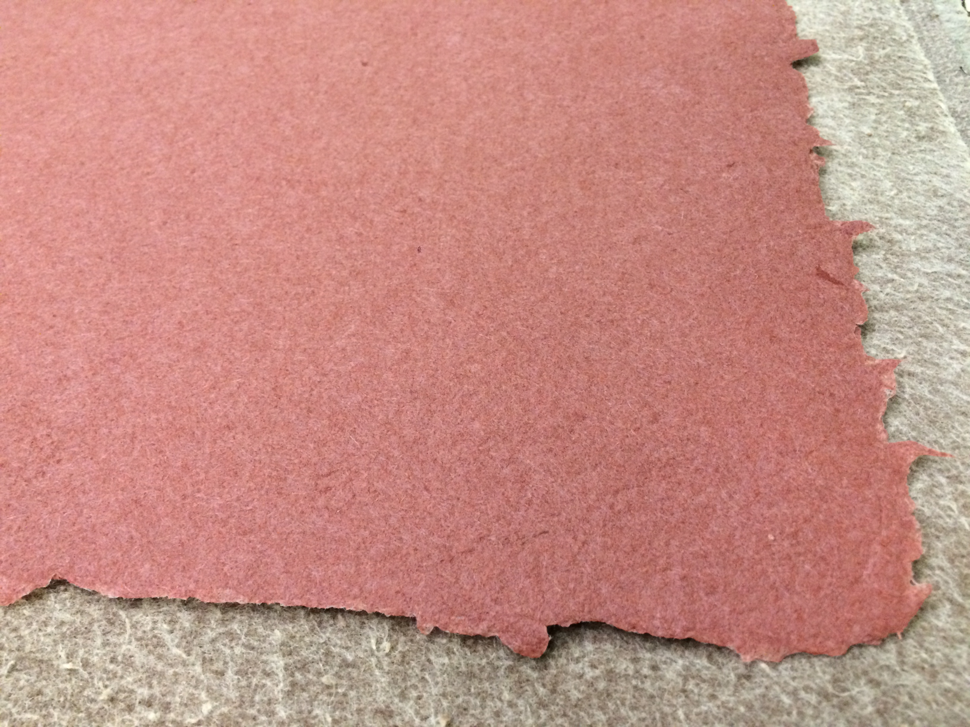 A handmade piece of flax paper. Pigmented red. has been pressed on felt but hasn't dried yet